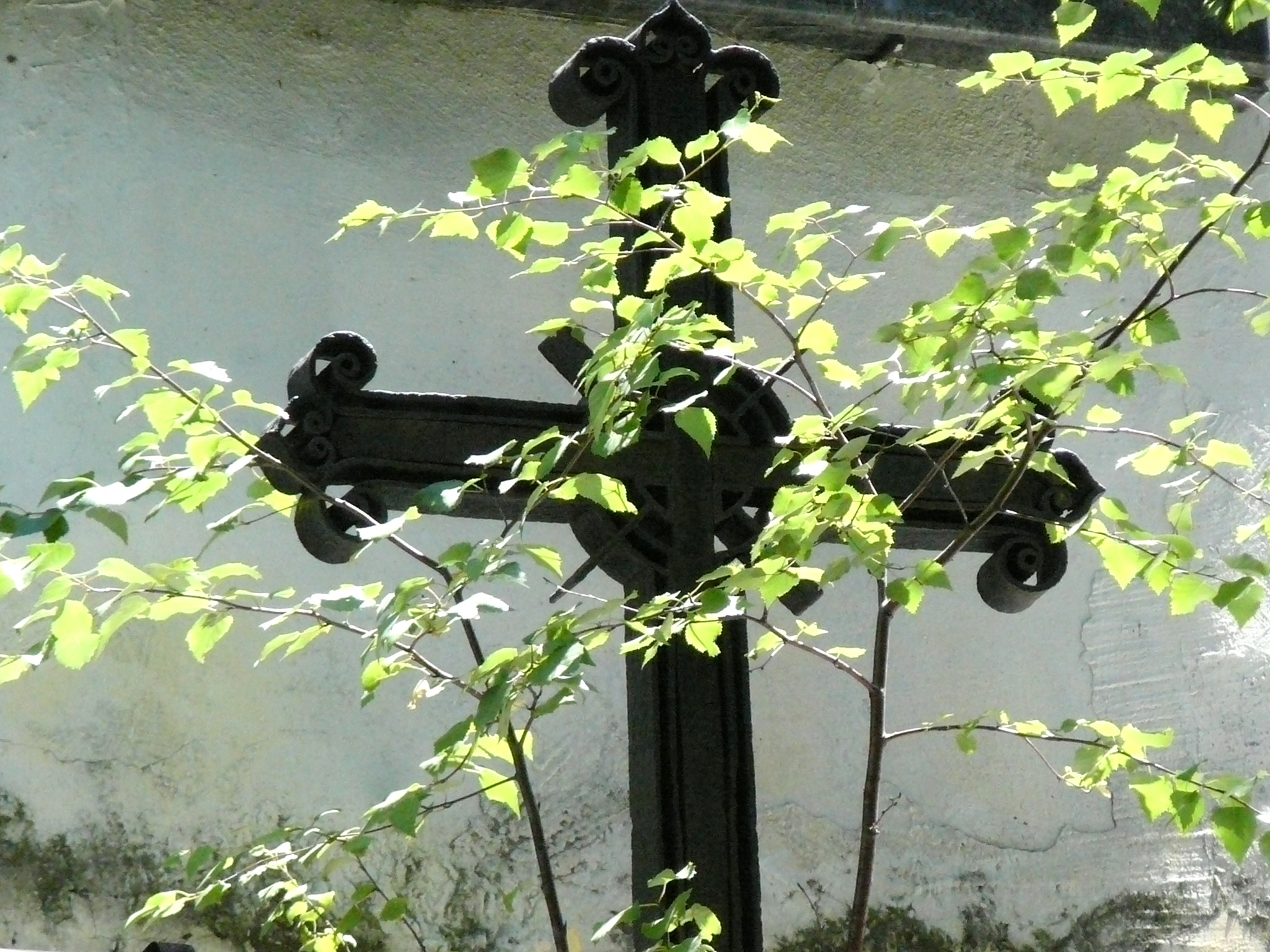 Bulgarian orthodox cross, Church Saint Pantaleon in Boyana, Sofia